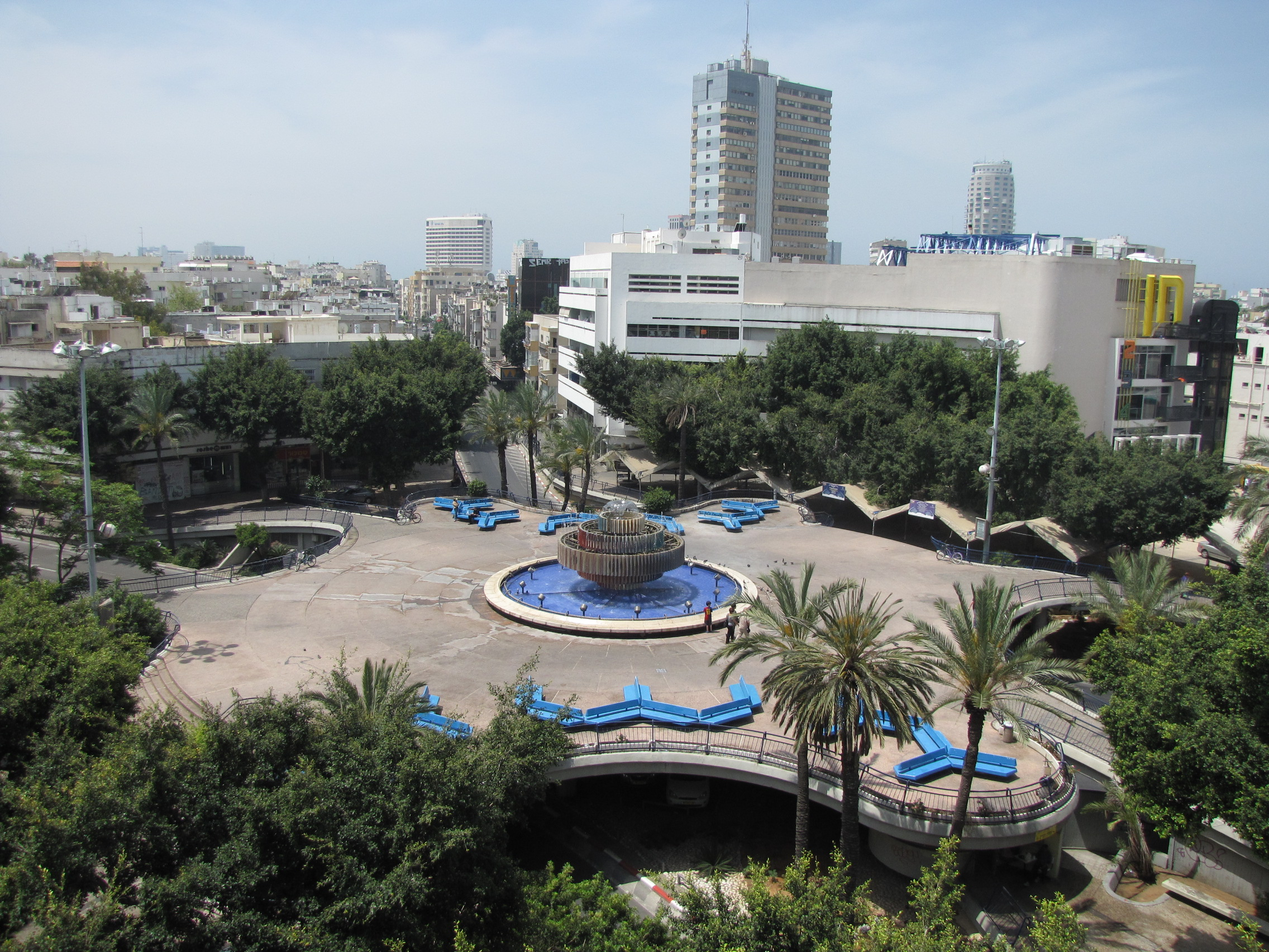 Dizengoff square, Tel-Aviv, Israel.